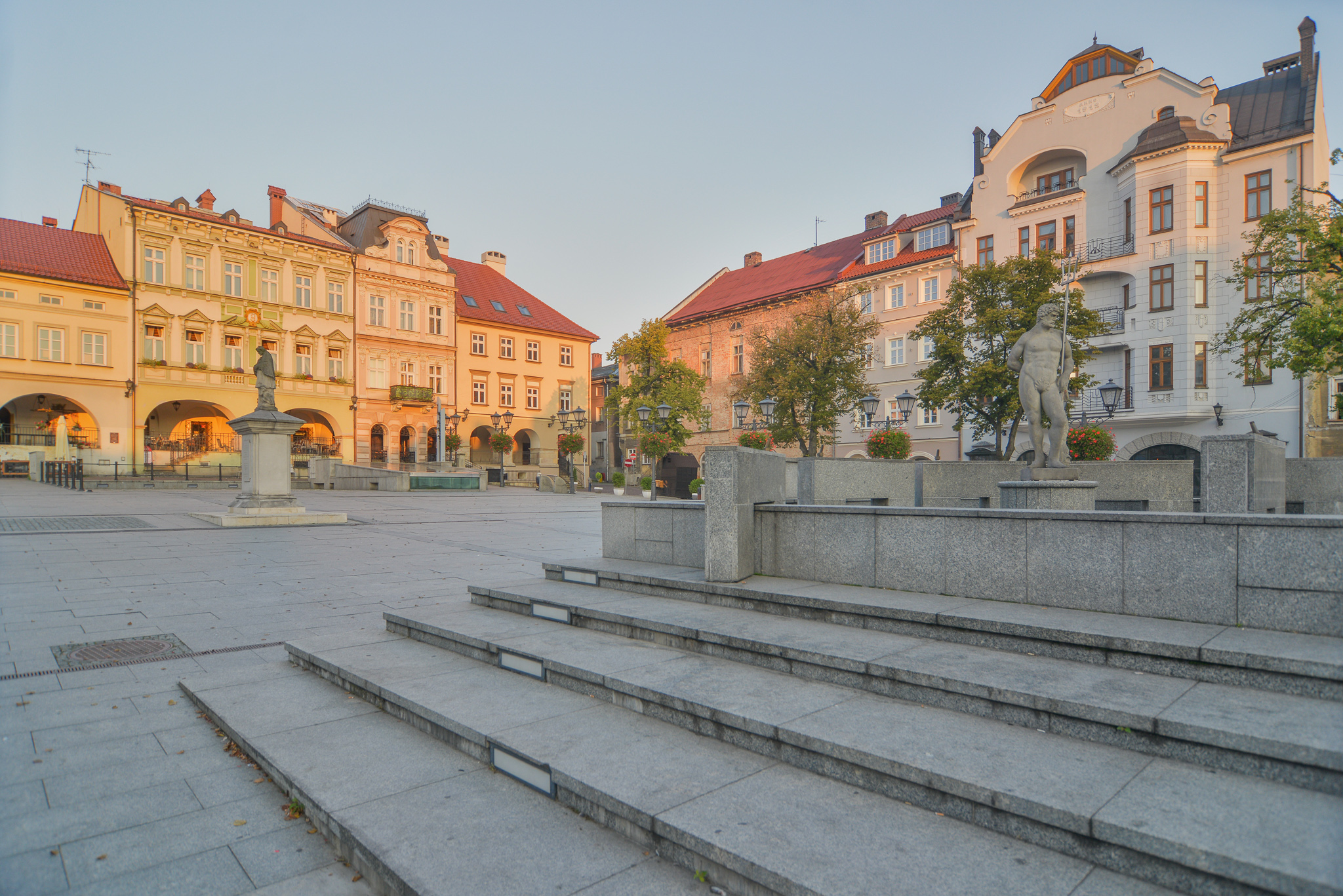 Old market in Bielsko-Biała. Old city in the morning. Postument of Neptune and historical tenements.